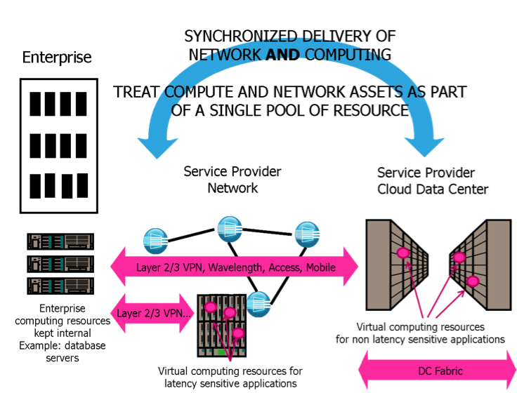 The carrier cloud brings the attributes of telecom service providers’ carrier-grade networks to cloud computing and cloud communications.